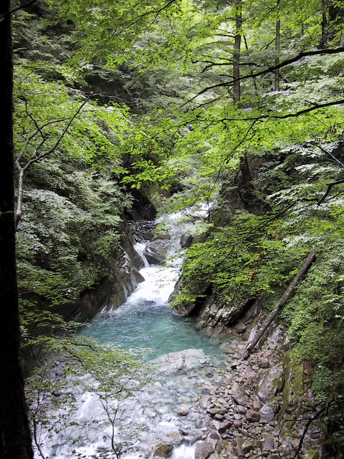 HIGASHIZAWA-KEIKOKU RAVINE. Yamanashi Prefecture, Japan